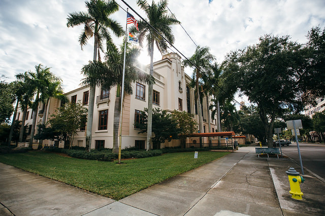 City Hall exterior